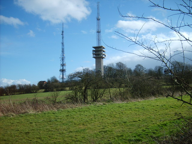 Turner's Hill The highest point in the West Midlands County at 889 feet.